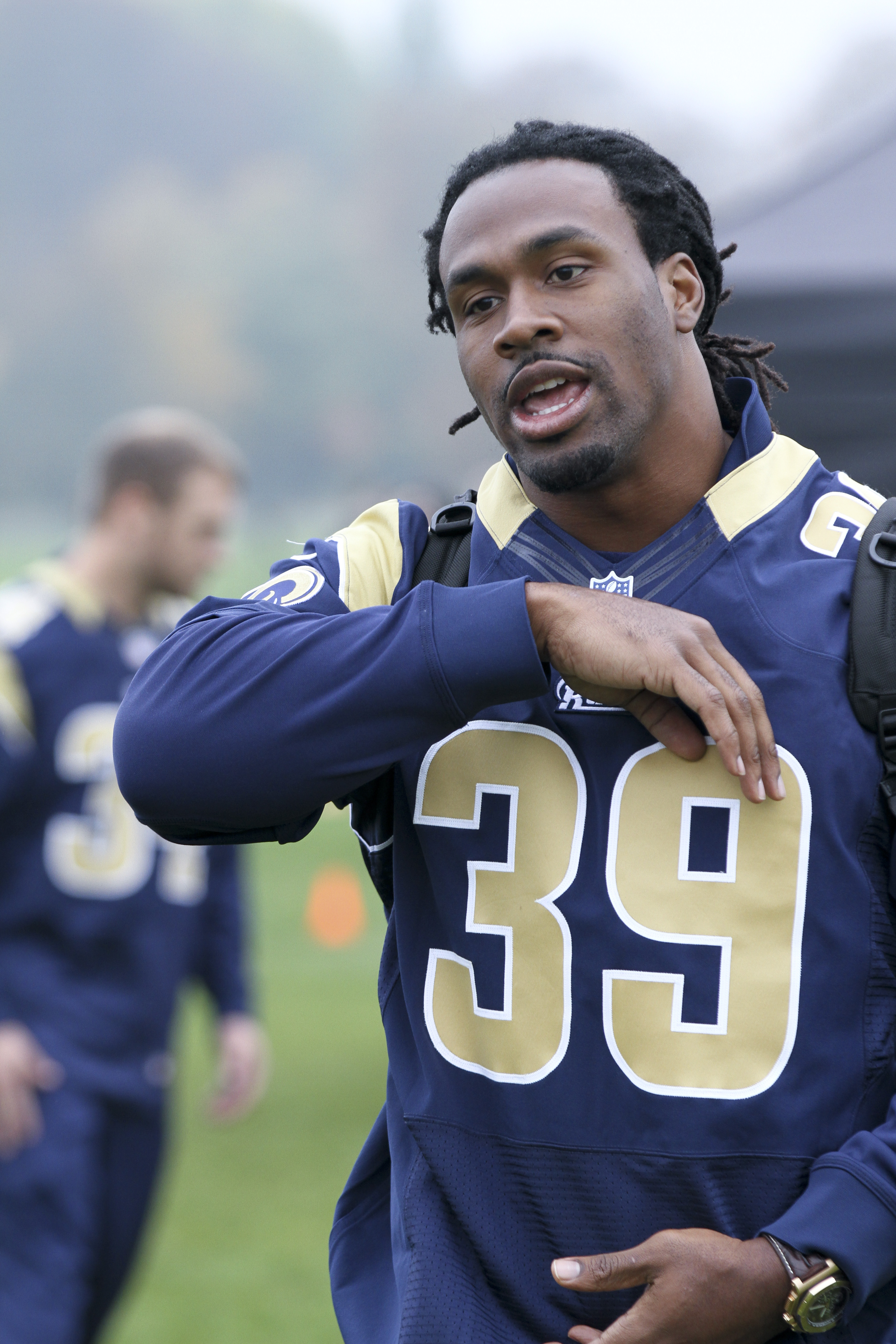 Rams running back Steven Jackson at the coaching clinic.